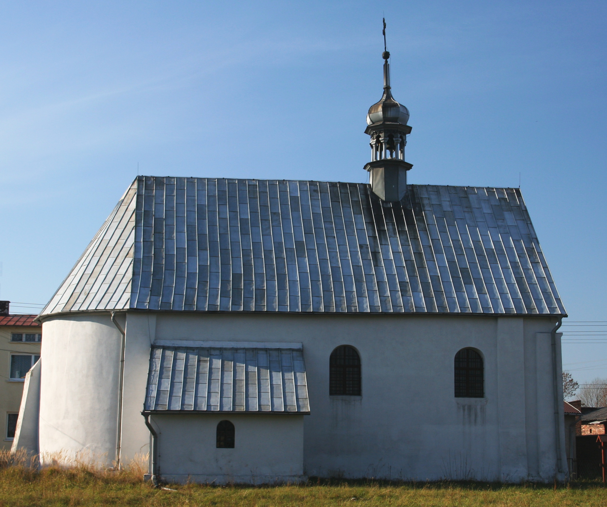 St. Barbara and st. Walenty church in Siewierz, Poland